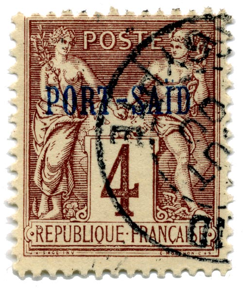 Scan of French post offices in Egypt (Port Said) 4c overprint stamp of 1899